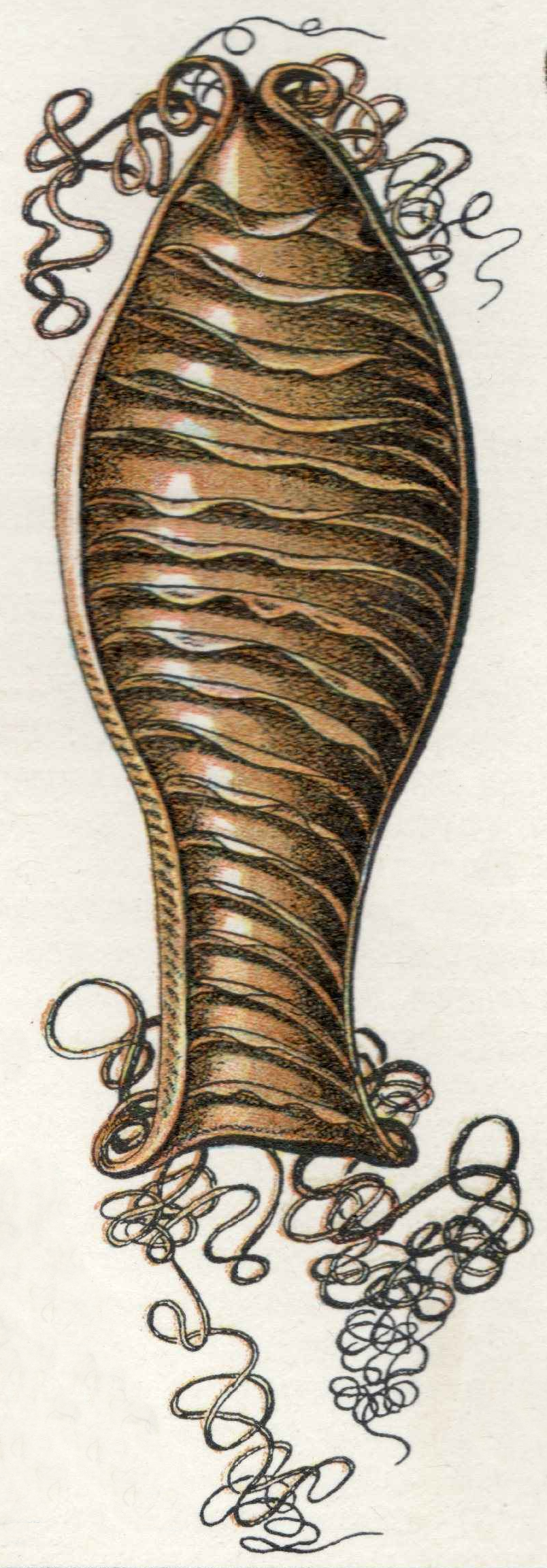 Egg of catshark (Scyliorhinus) (mermaids' purses)